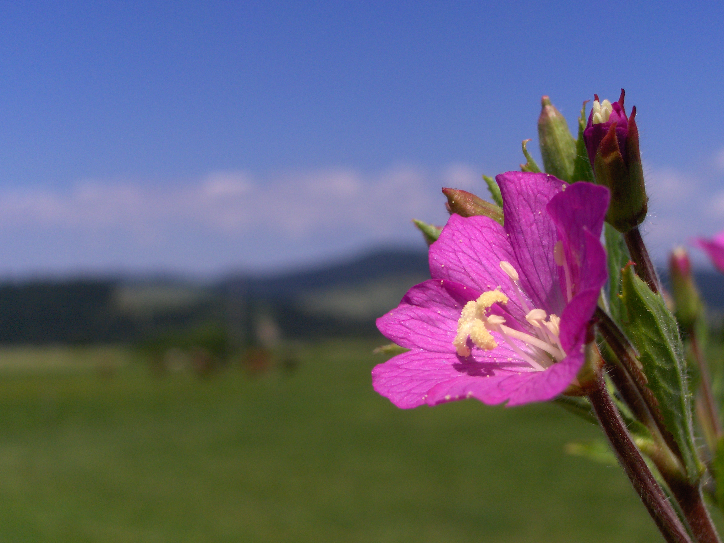 Picture made in Tatra mountains, Poland. Identified by Jean-Jacques MILAN, re-uploaded with correct name.